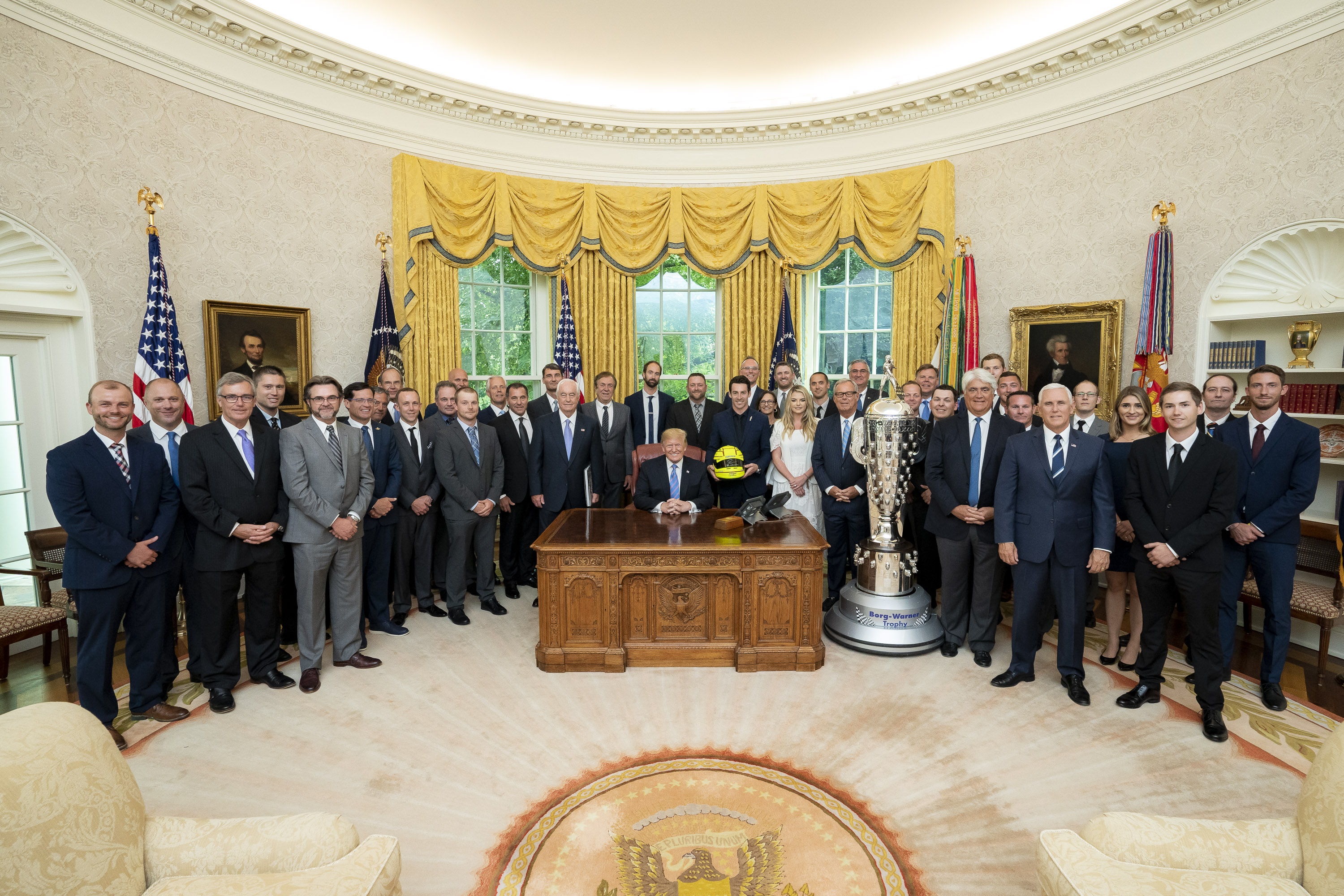 President Donald J. Trump welcomes race car driver Simon Pagenaud and Team Penske owner Roger Penske, the 103rd Indianapolis 500 Champion Team and the Borg-Warner winner’s trophy Monday, June 10, 2019, to the Oval Office of the White House. (Official White House Photo by Tia Dufour)